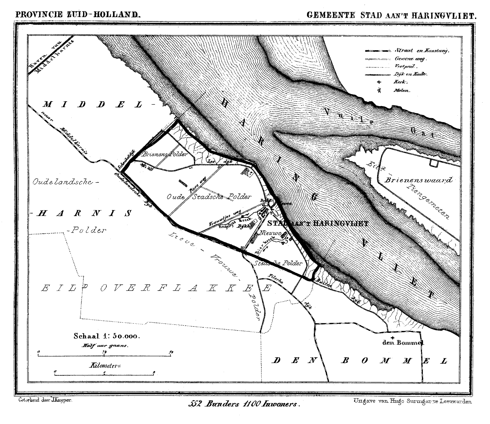 Historic map of Stad aan 't Haringvliet (now municipality Middelharnis), South Holland, the Netherlands